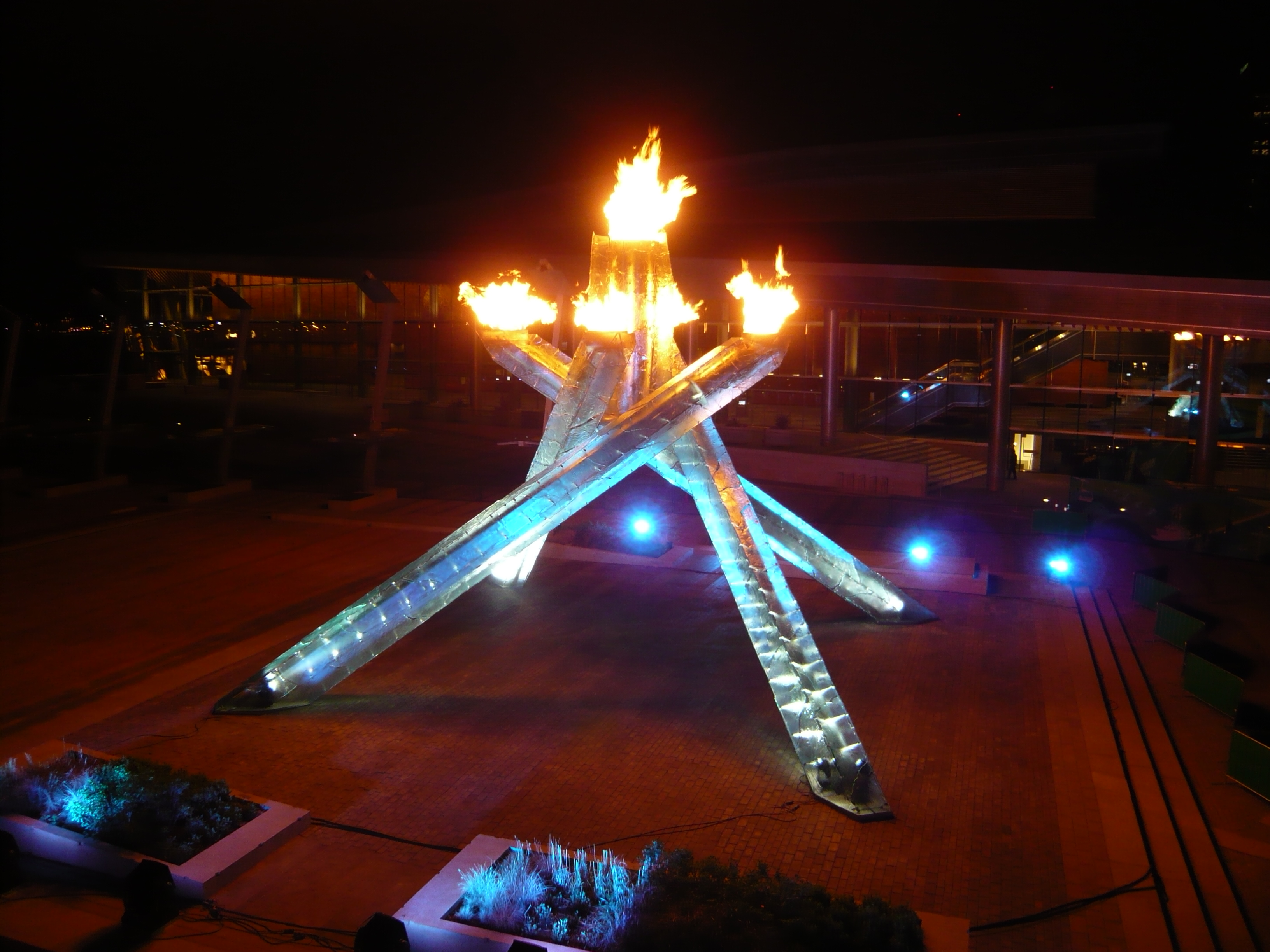 Olympic Flame of Vancouver2010